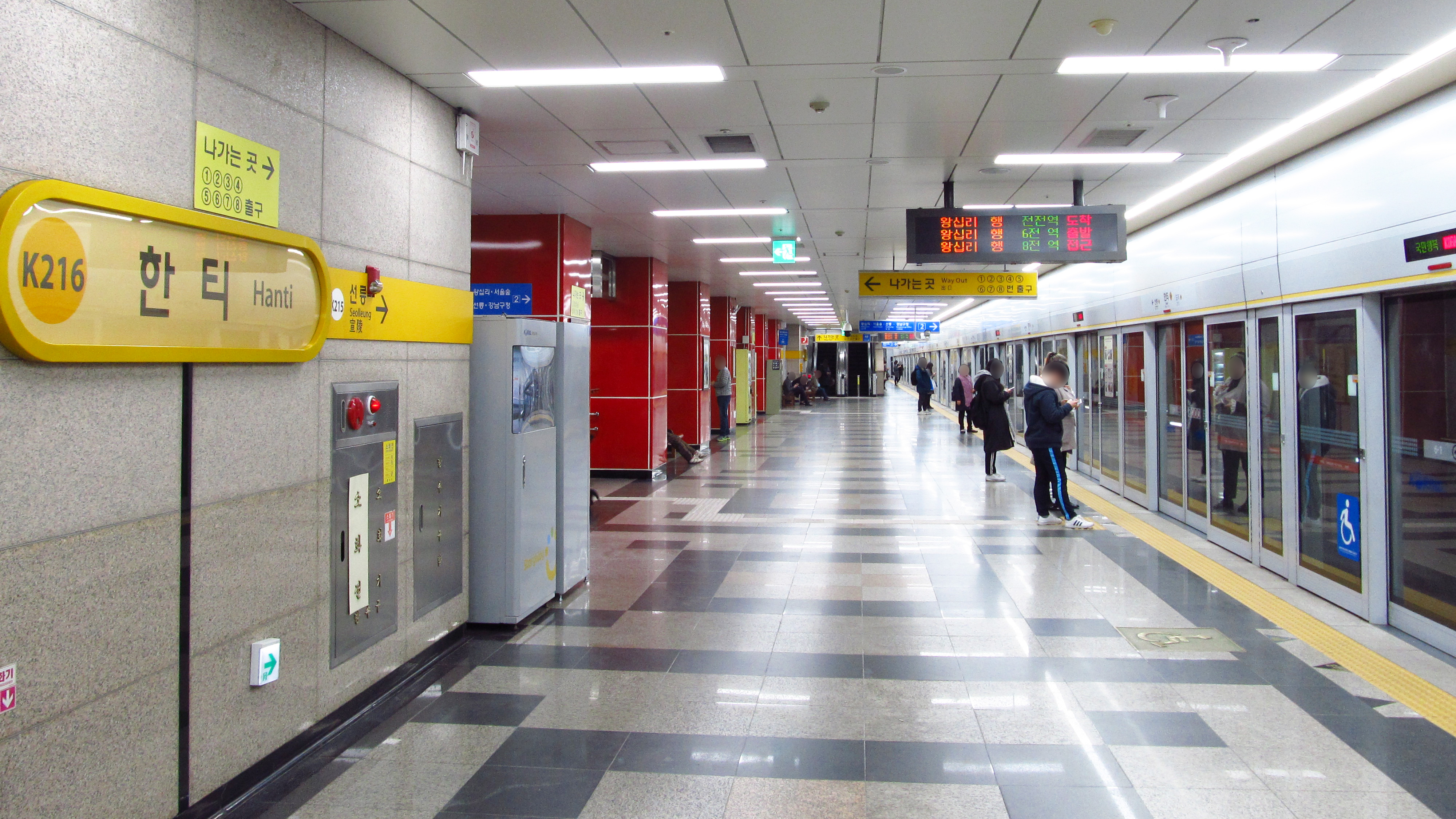 The platform at Hanti Station on Bundang Line in Gangnam-gu, Seoul, Republic of Korea(South Korea)